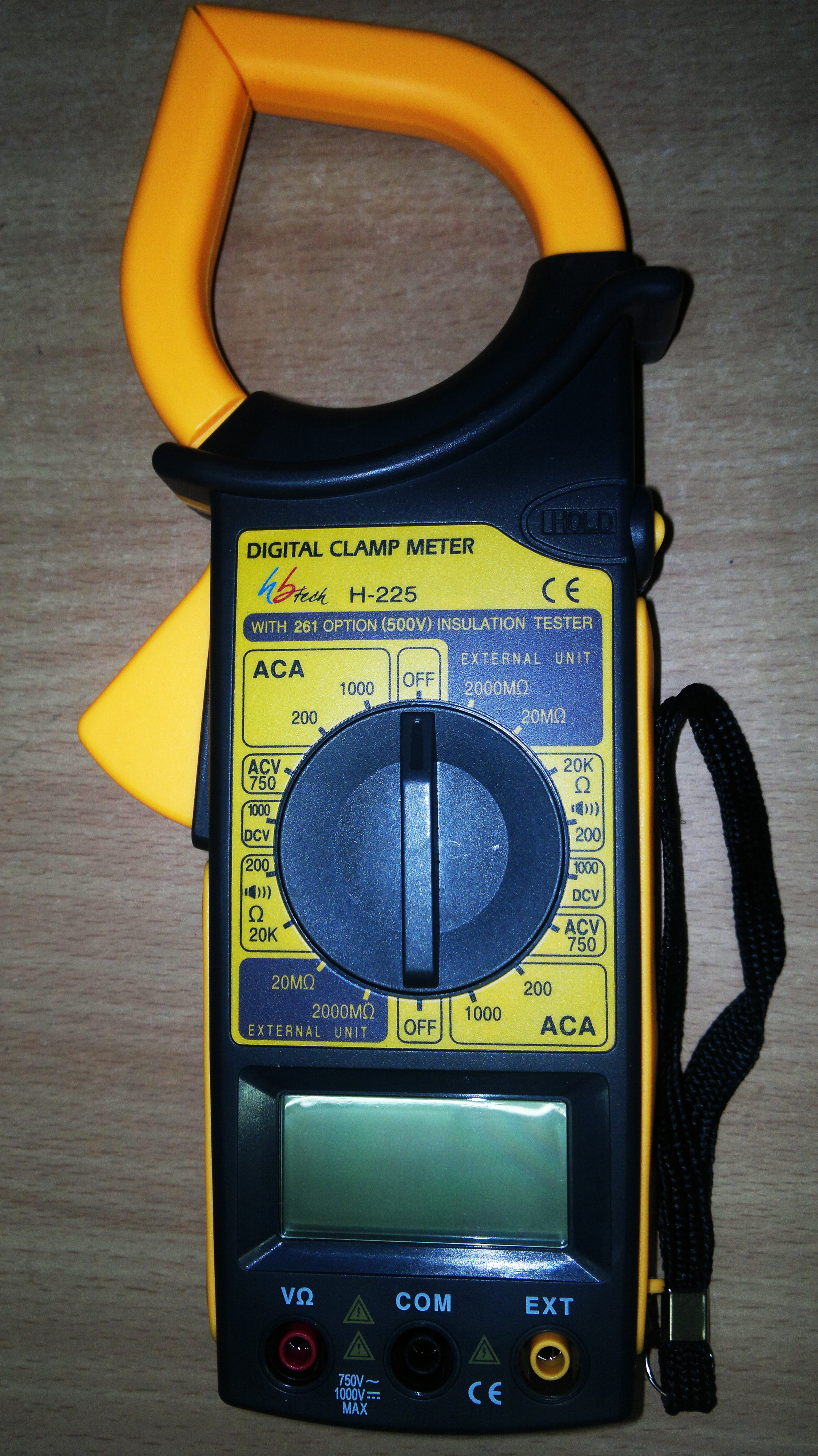 A digital clamp meter manufactured by hb tech